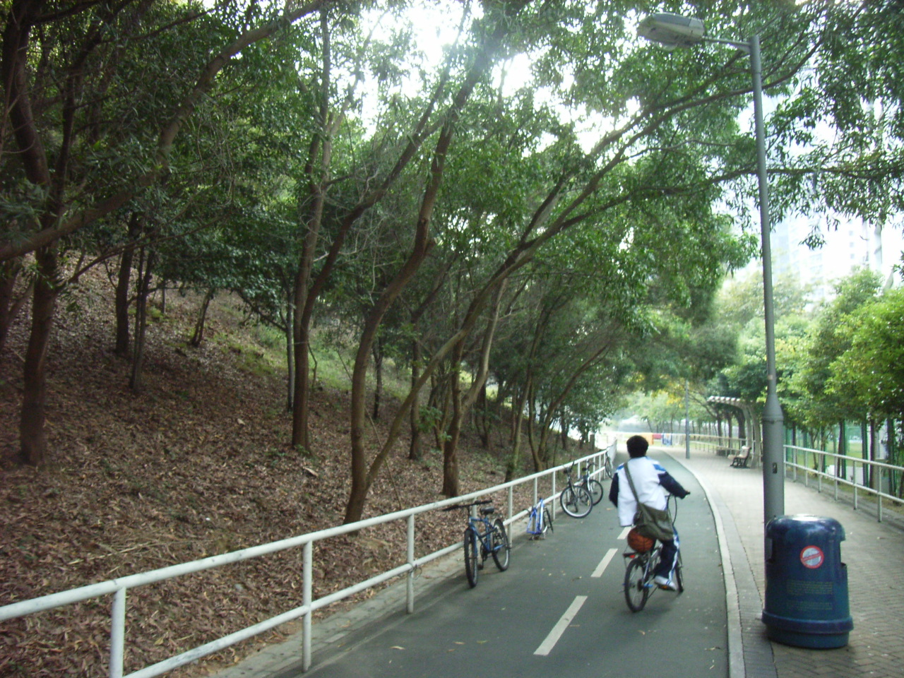 北大嶼山新市鎮東涌富東邨, bikeways, 單車徑. Photographic and author: User:TUNGTUNG360